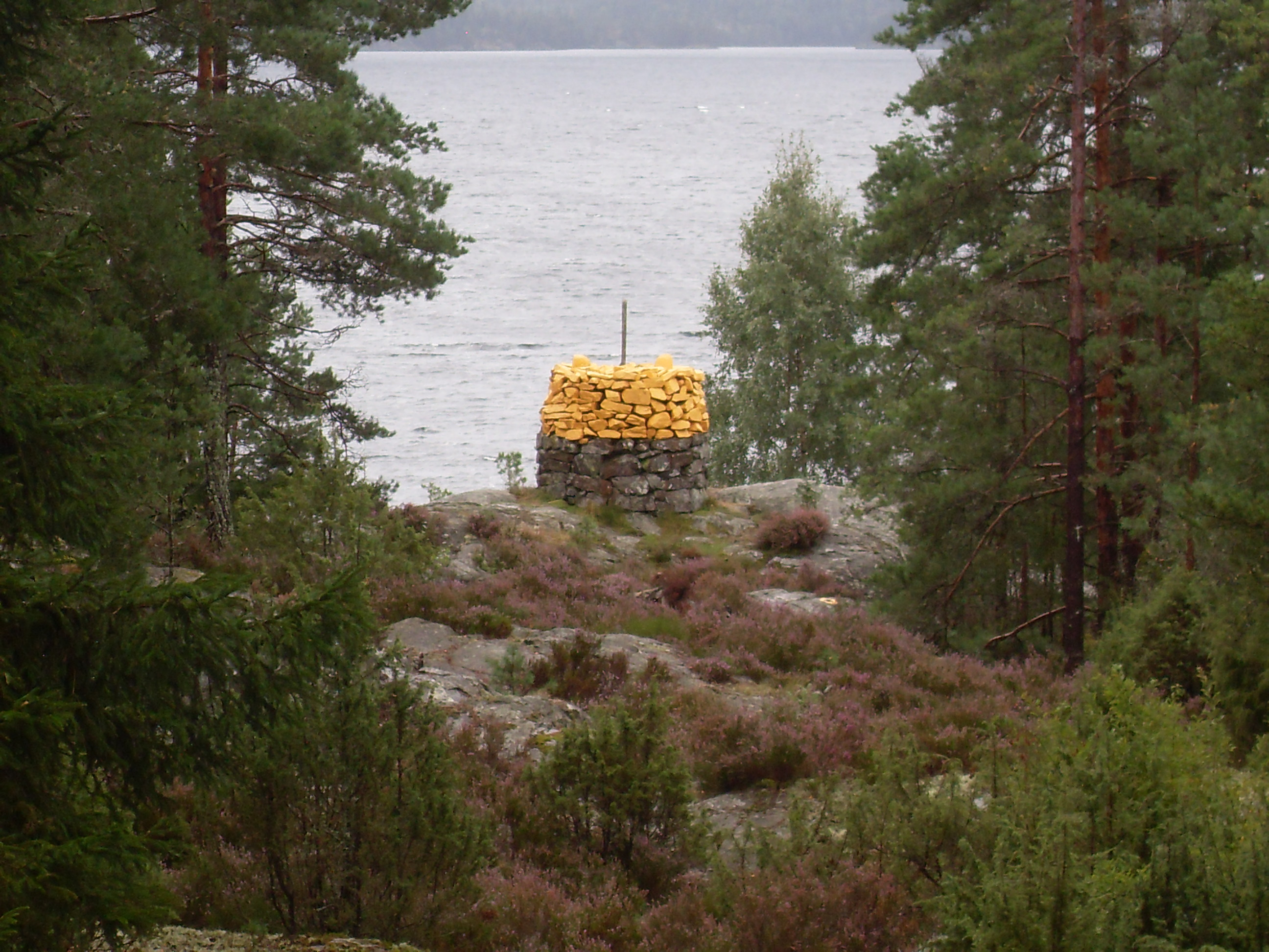 Border rock marking the border between Norway and Sweden. Based on the coordinates, this is probably Trollröset on Trolløya.